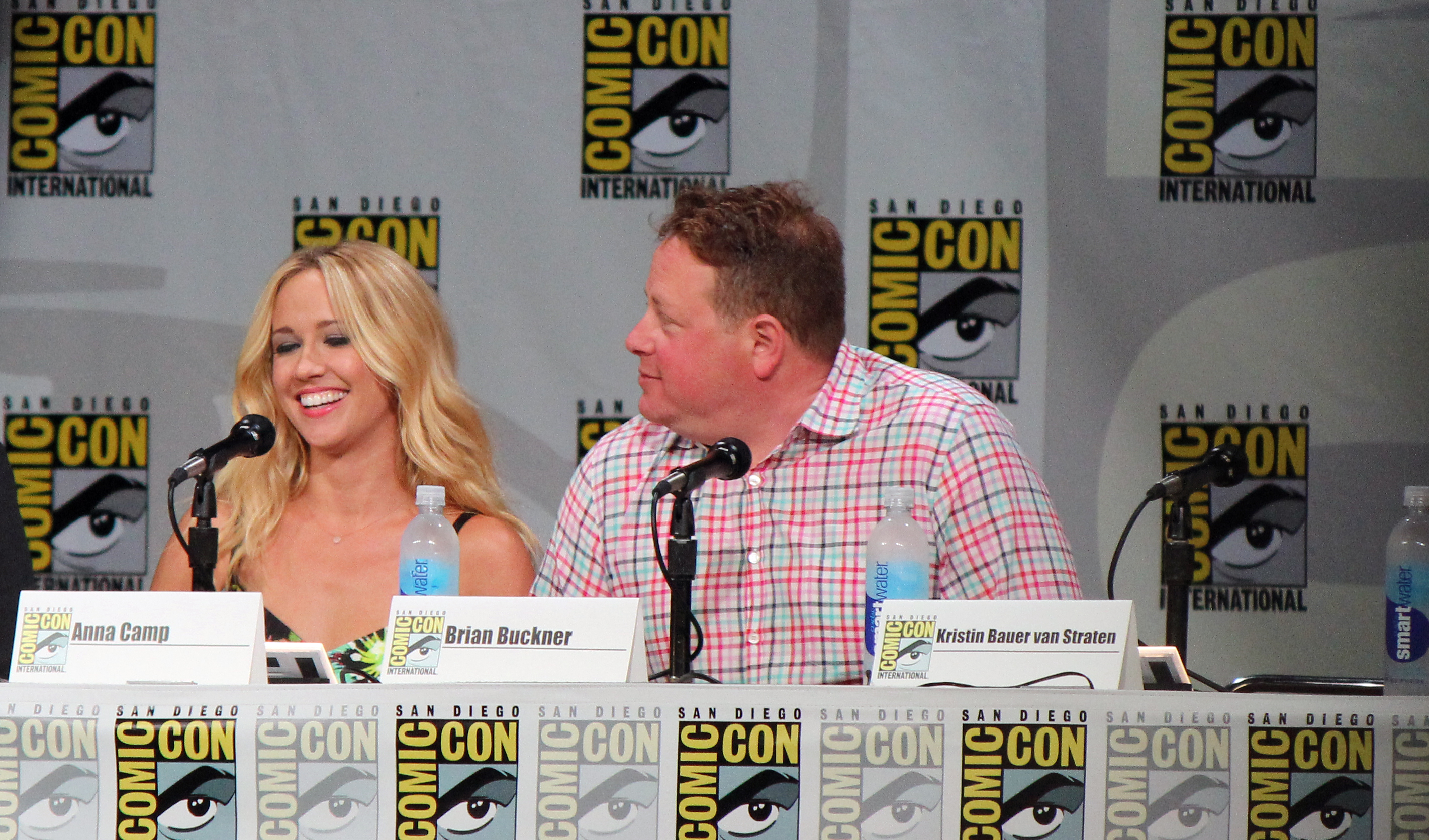 Anna Camp and Brian Buckner at the True Blood panel at the 2014 Comic-Con convention in San Diego, California.